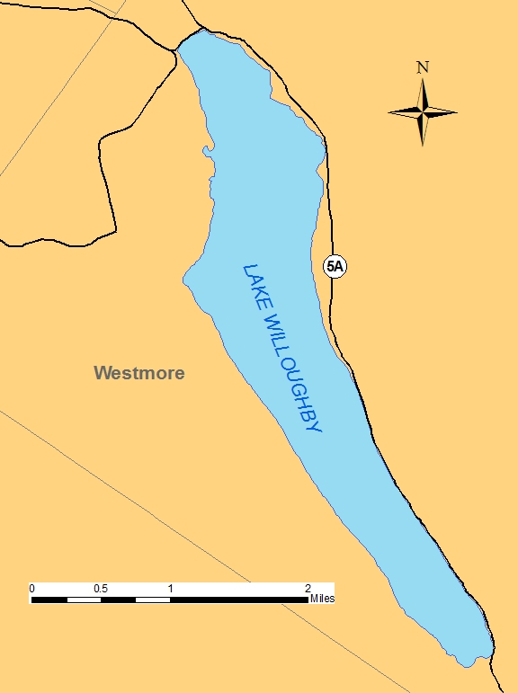 Lake Willoughby is approx 5.25 miles long and is located in Northeastern Vermont